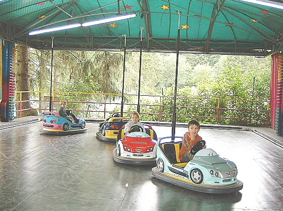 Children-Scooter in a german amusementpark near Schlangenbad in Taunus